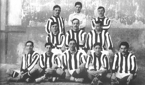 The Atlético Madrid football team.